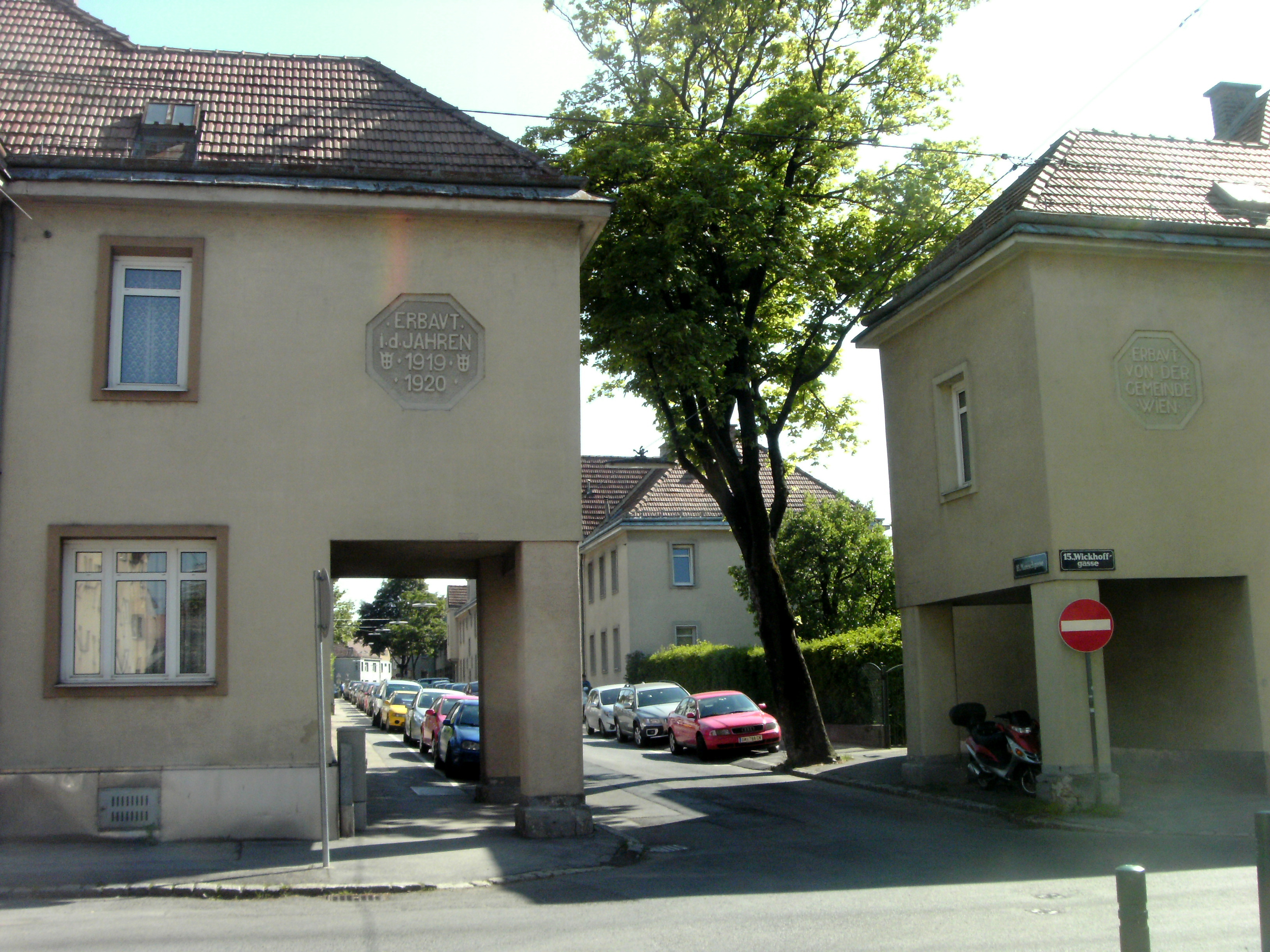 View from Wickhoffgasse to Mareschgasse, Schmelz residential area, Vienna's 15th district